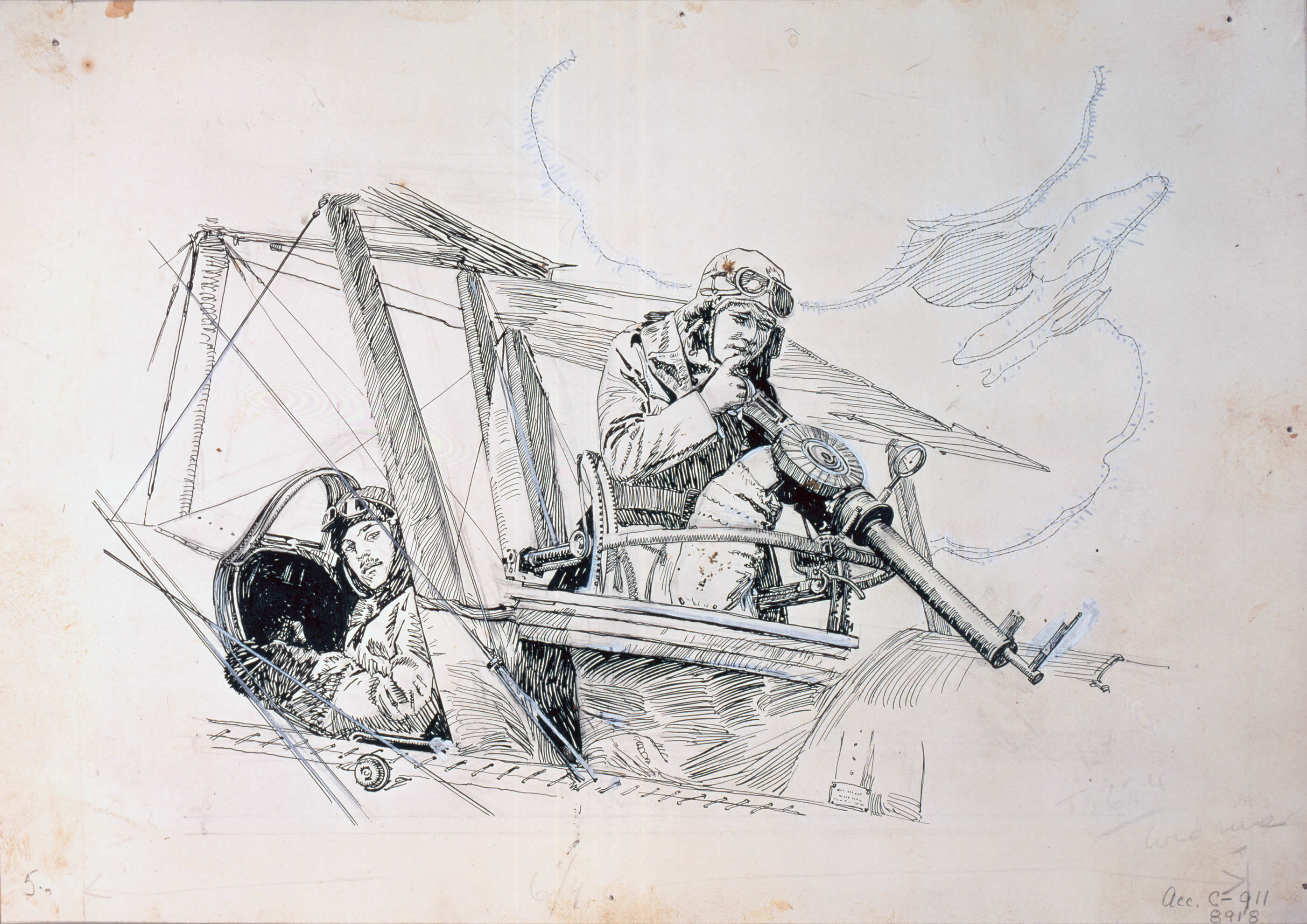 A study by artist Frederick Varley of a pilot and aerial observer. In the rear seat, the observer is also responsible for a Lewis gun. The title of the sketch, The Young Man’s Element, the Air, speaks to the perception that air combat was gallant and chivalrous. In reality, the techniques of aerial combat were not particularly chivalrous. They usually involved sneak attacks on vulnerable targets, and experienced flyers preyed on new enemy pilots.